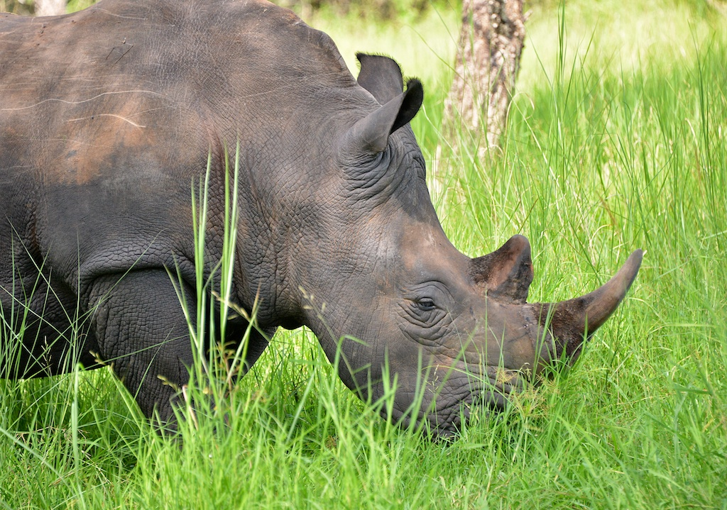 White Rhino, Uganda